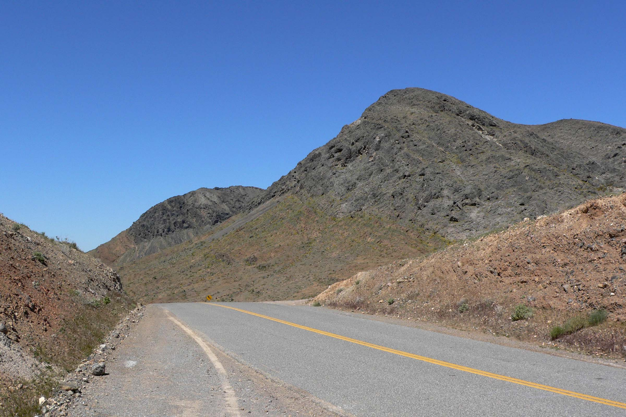 Old Spanish Trail Highway where it goes over Emigrant Pass in the Nopah Range, Mojave Desert, California